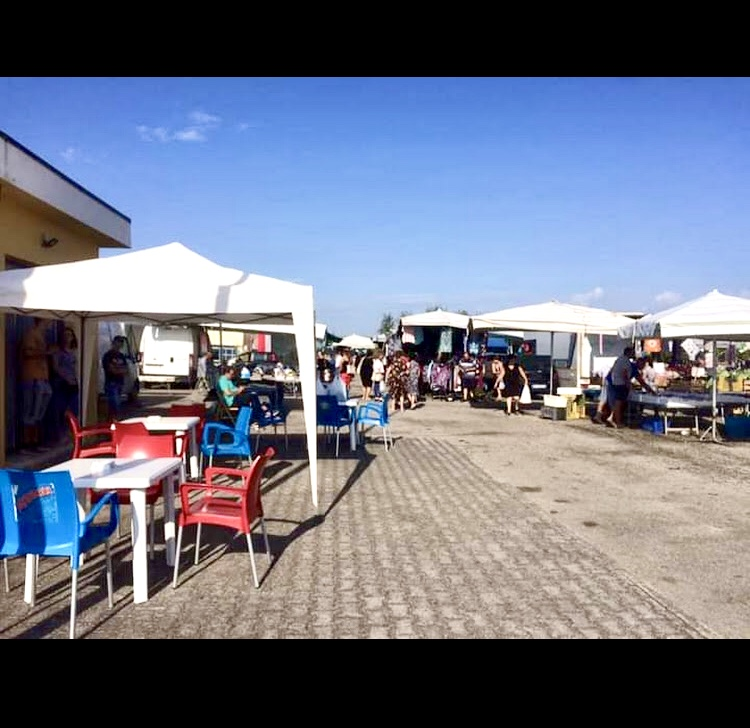 Mercato smlf